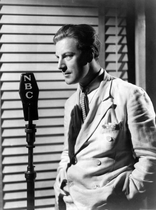 Publicity photo of actor and vocalist Dennis King as he began a weekly radio program on WJZ, which was part of the old NBC Blue Network.